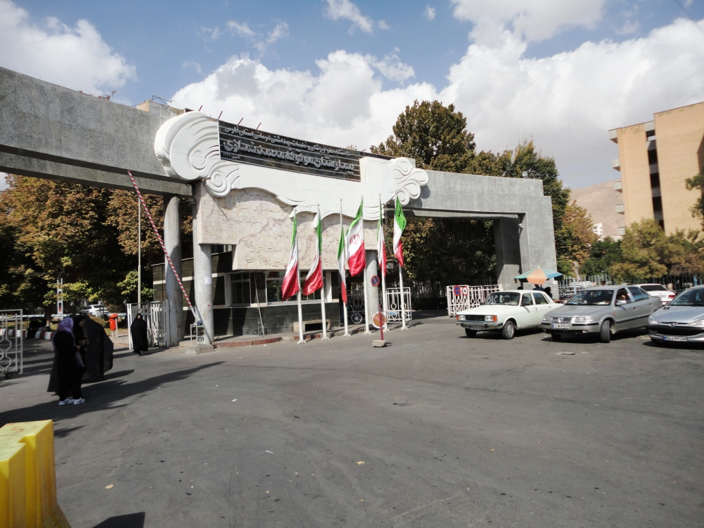 Namazi Hospital